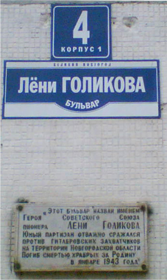 Leonid Golikov. Memory plaque in Golikov street in Veliky Novgorod, Russia